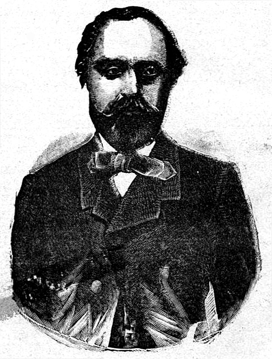 Thrasyvoulos Zaimis (1825-1880): Prime Minister of Greece